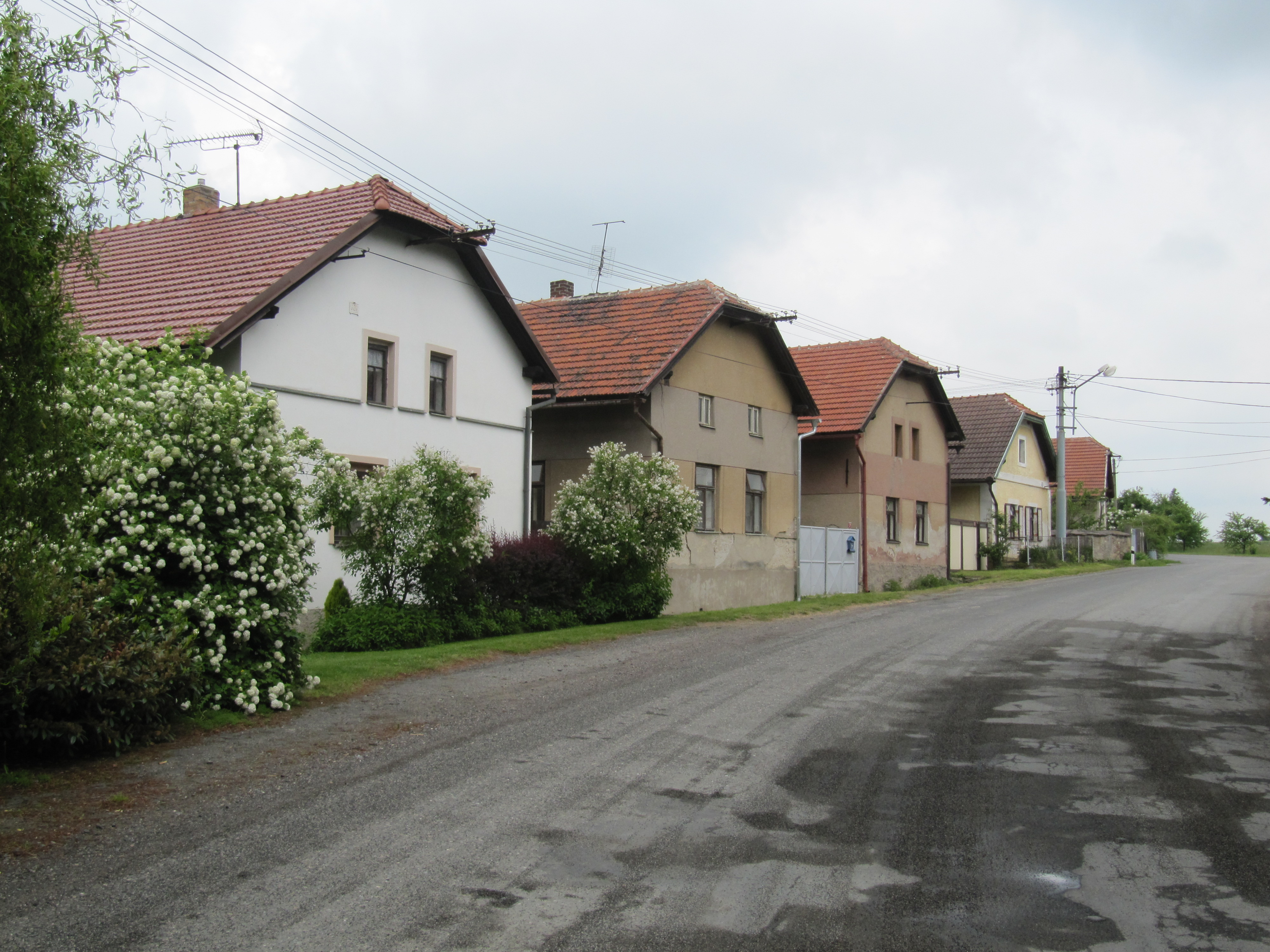 Zásmuky, Kolín District, Czech Republic, part Nesměň. Row of houses in the northern part of the village.